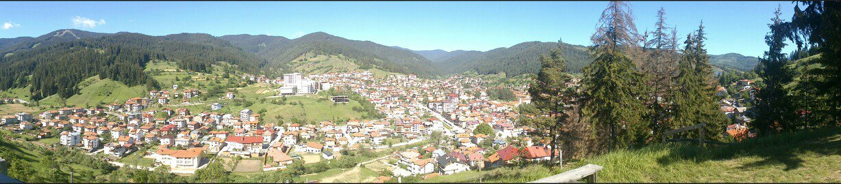 Chepelare